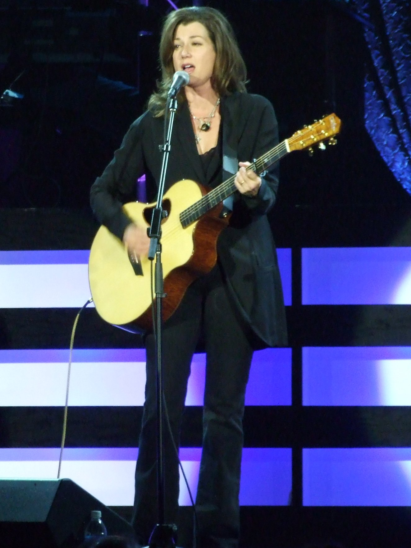 Amy Grant at the Peppermill Concert Hall in West Wendover, Nevada as part of her 20th anniversary Lead Me On tour.